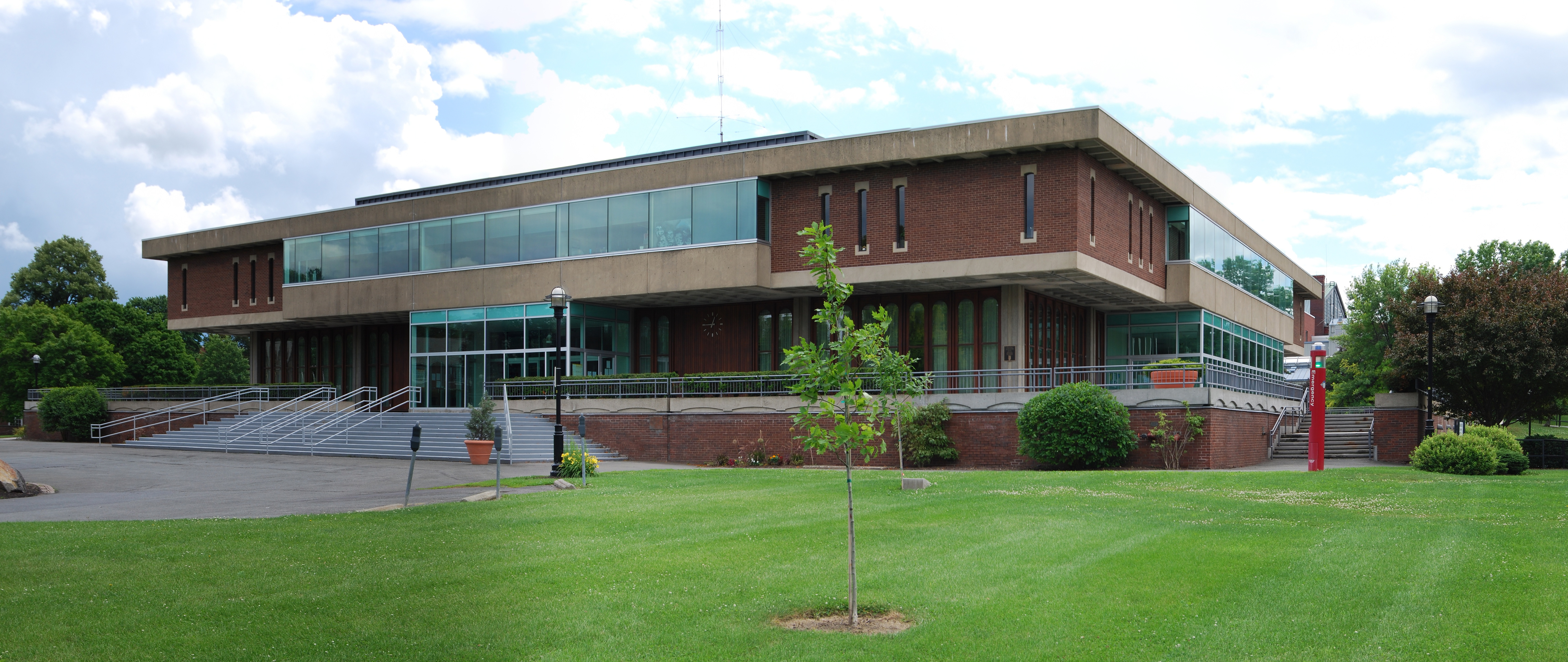 Student Union on the campus of Rensselaer Polytechnic Institute in Troy, New York, United States